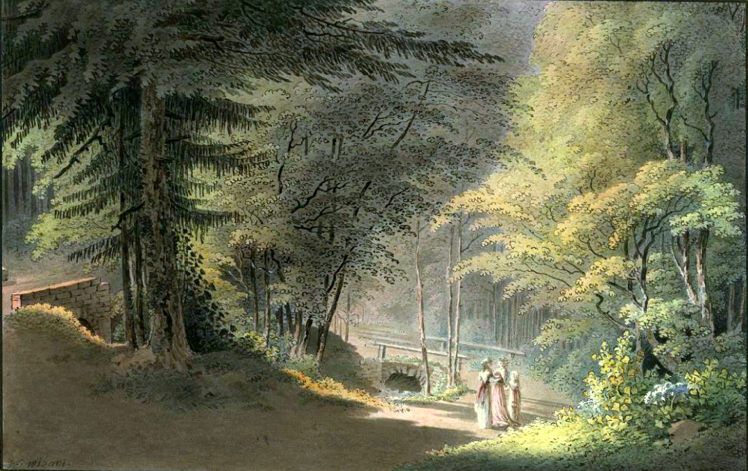 The Friedrichsgrund near Pillnitz (Dresden) around 1800